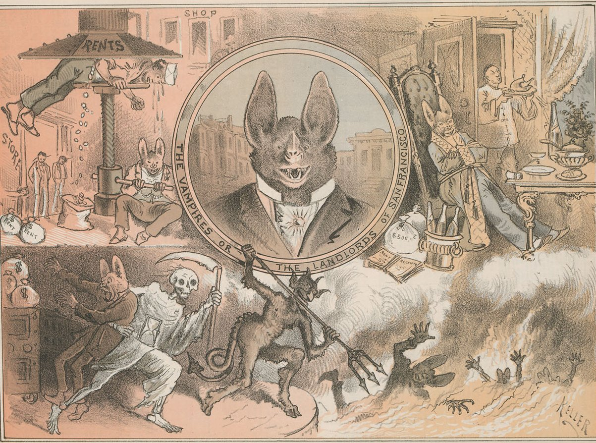 1882 political cartoon, San Francisco, California, depicting San Francisco landlords as vampire bats squeezing the rent out of tenants, enjoying a fine meal, then being taken by death and thrown into hell.